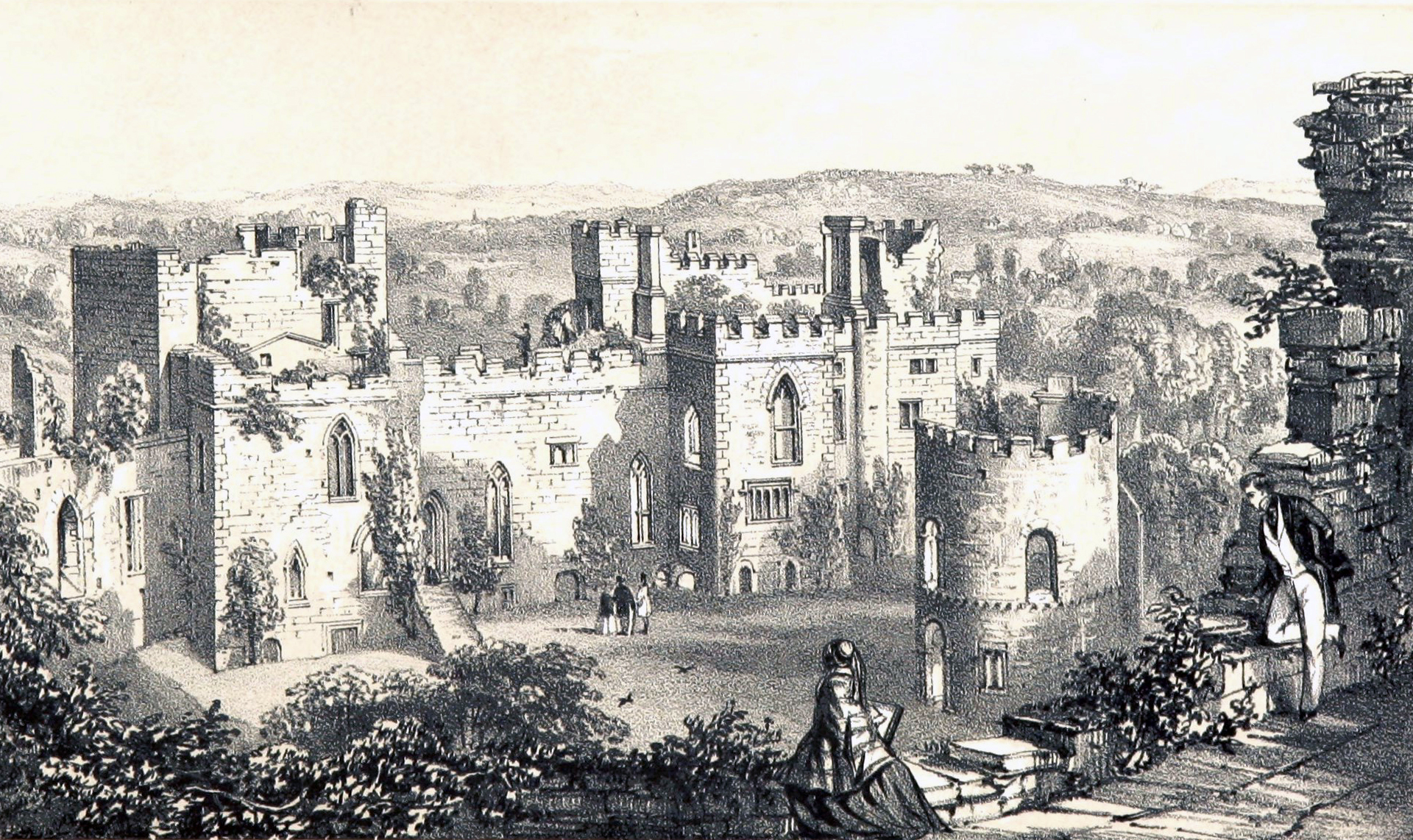 Ludlow Castle. Released by the British Library under "no known copyright restrictions" license, and for more details.